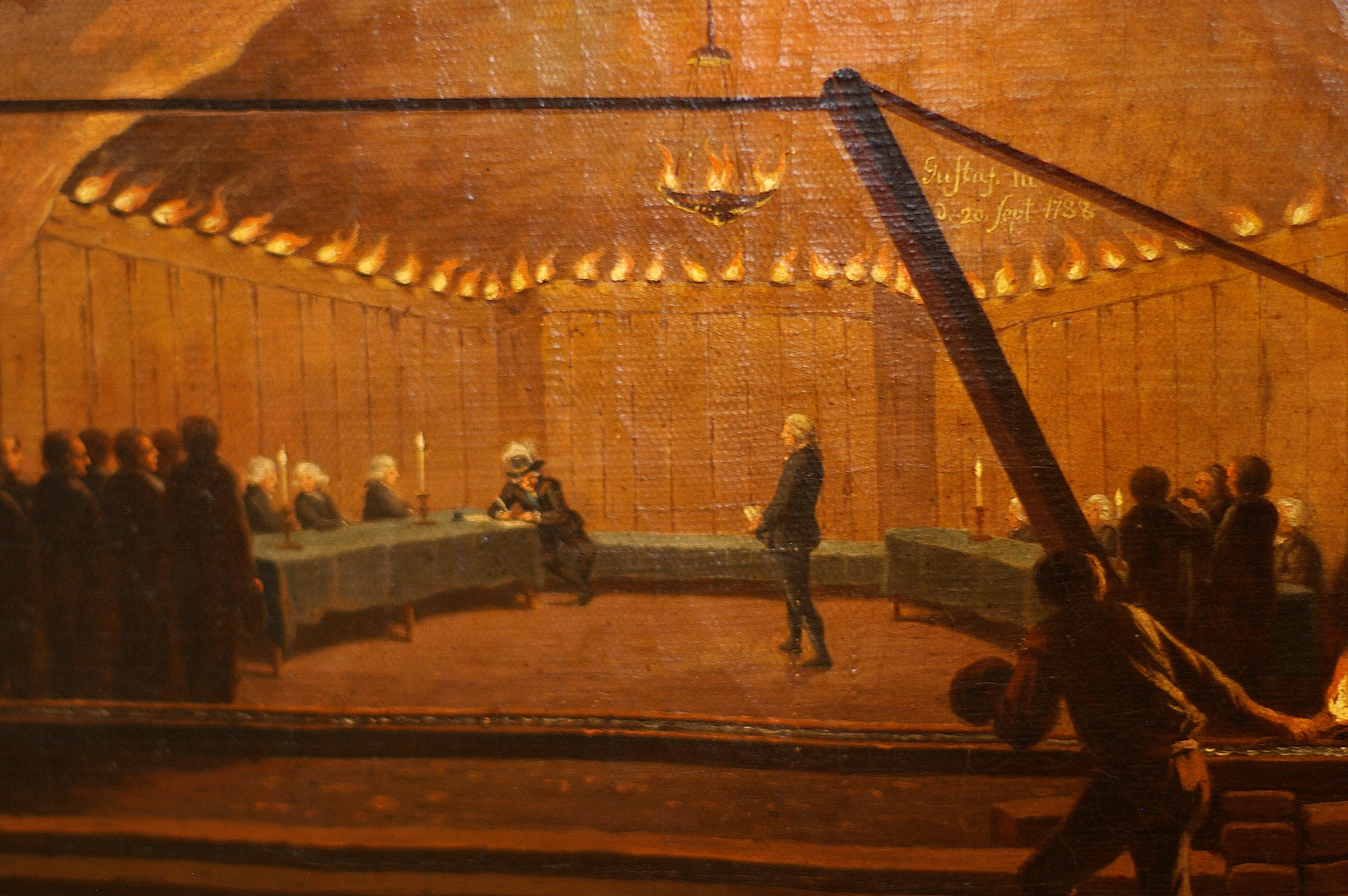 This is a photo of an artwork at the Gothenburg Museum of Art in Sweden with the identifier: GKM102